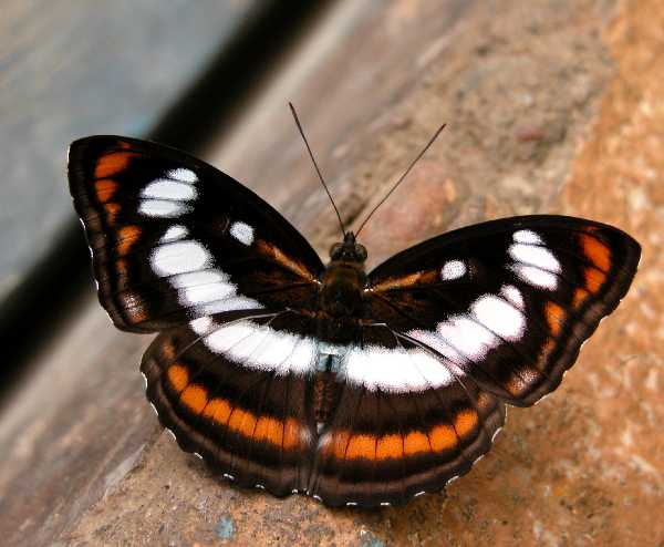 Athyma (nefte) inara (or intermediate with A. n. nivifera) Upper Side View taken at Jairampur, Arunachal Pardesh, India.